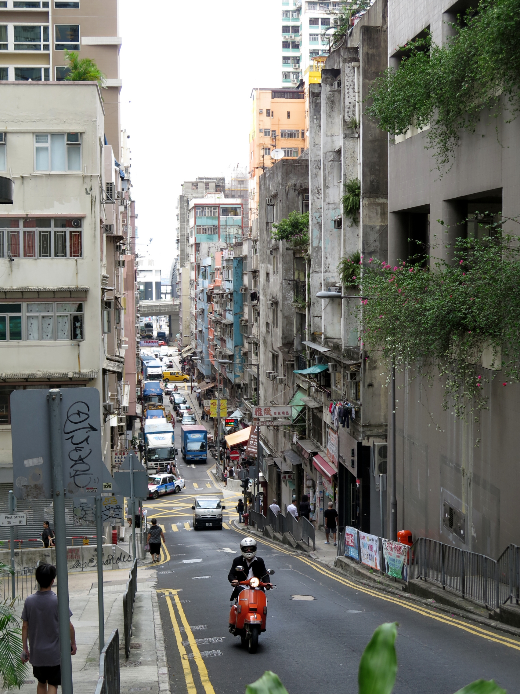 Eastern Street, Sai Ying Pun